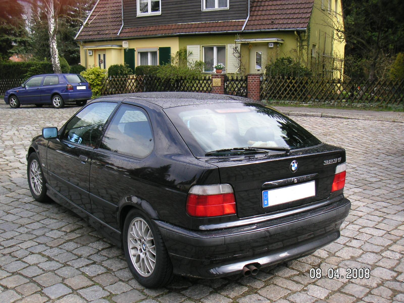 BMW 323 ti Compact E36